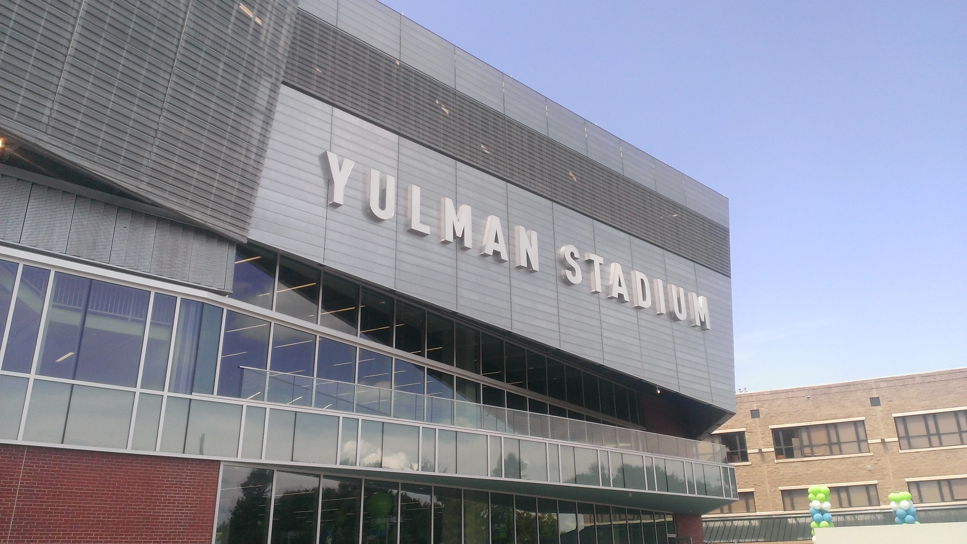 The front facade of Yulman Stadium at Tulane University